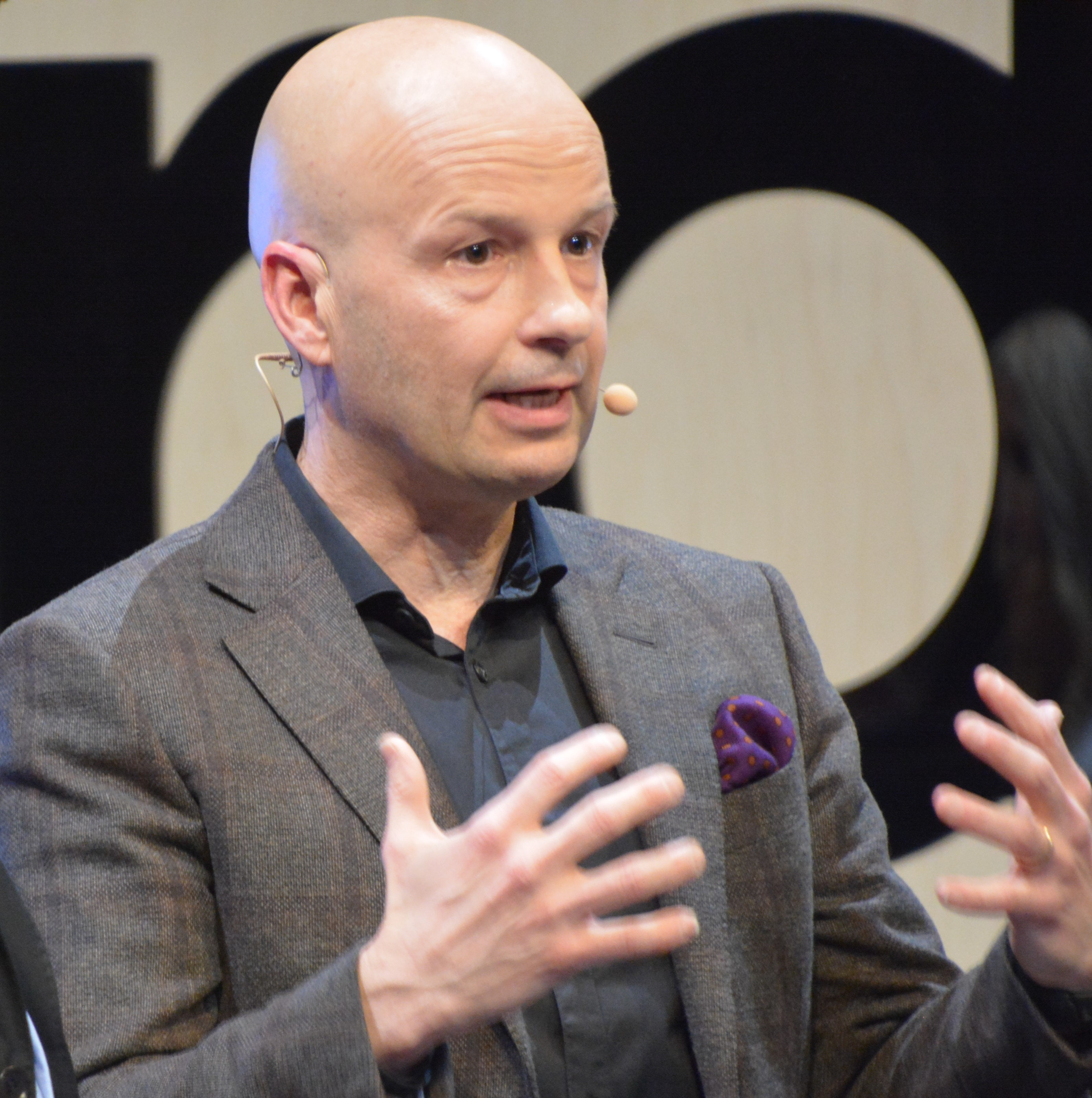 Christian Fredrikson på Nordnet Live 2017